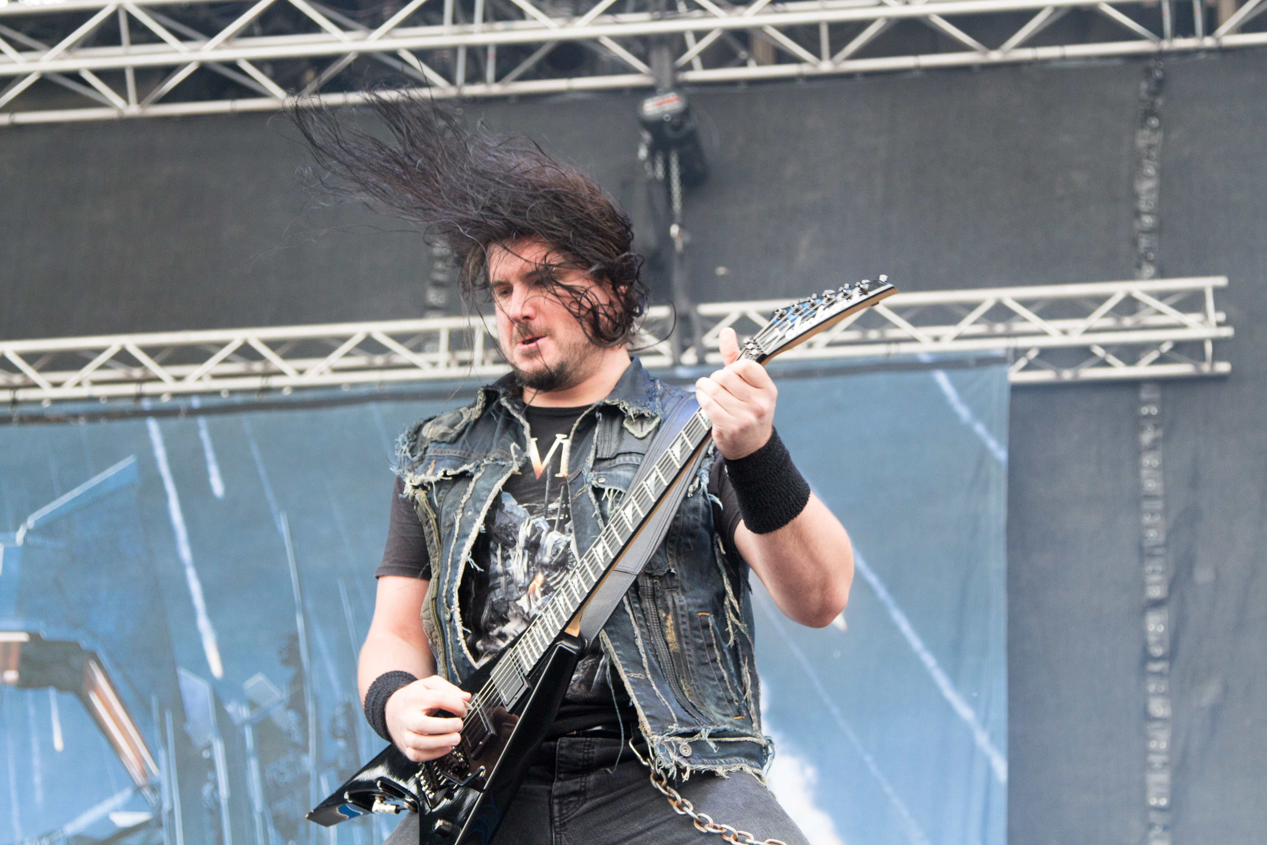 Corey Beaulieu from Trivium at Nova Rock 2014